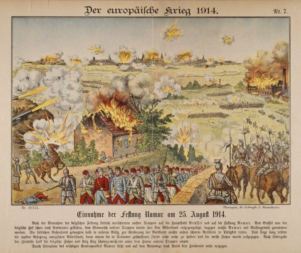 A German print depicting the capture of the citadel of Namur in August 25, 1914